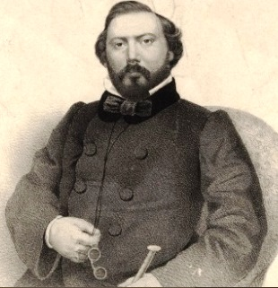 Lithograph portrait of Italian tenor Corrado Miraglia (1821-1881)